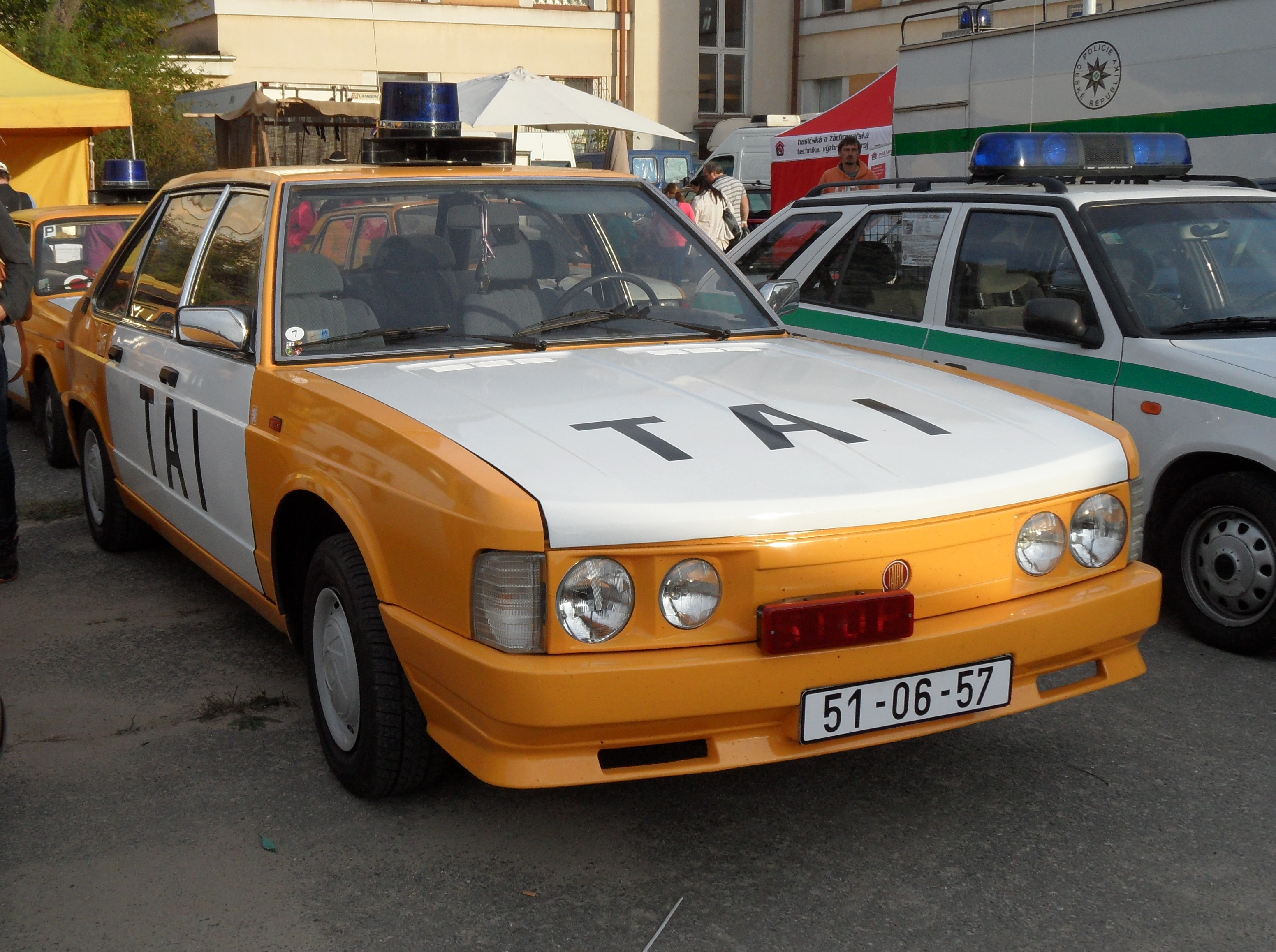 Retro City. Saturday: Main Programme, Police and Ambulance Cars H10. Tatra 613 as Police Car in former ČSSR. Pardubice, Pardubice District, the Czech Republic.